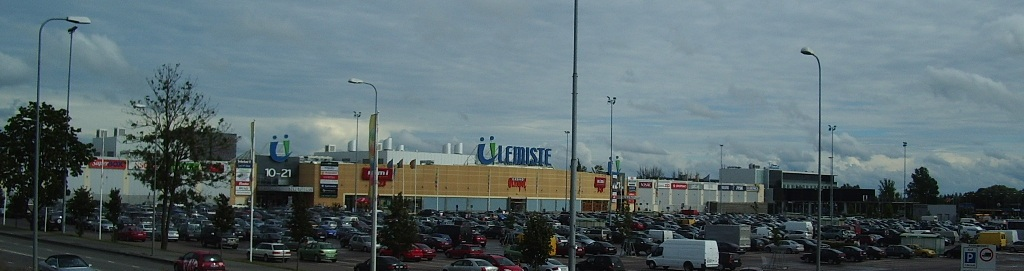 Ülemiste shopping centre at 4 Suur-Sõjamäe, Tallinn